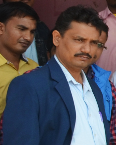 Subrat Prusty is a research scholar in Odia language. He is one of the founding members of Odia University, a proposed university in Odisha, India. Prusty has contributed in compiling a report that was considered by the Indian Parliament to declare Odia as the sixth classical Indian language.